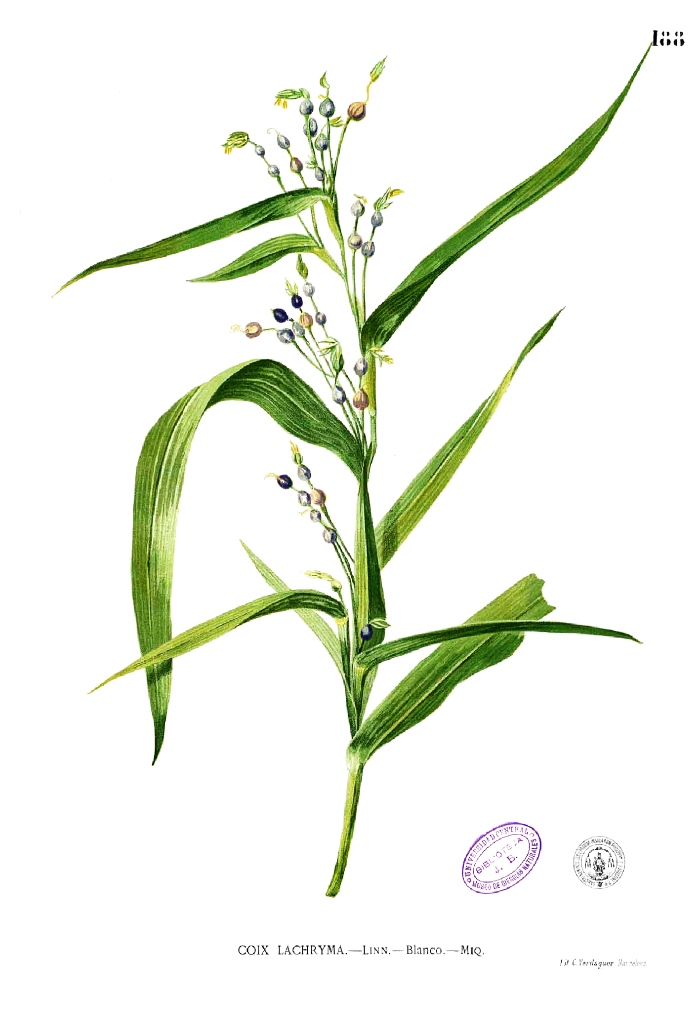 Plate from book